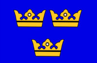 The flag of East Anglia during the Kingdom of East Anglia's independence.